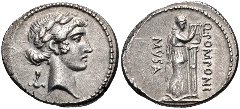 Q. Pomponius Musa. 56 BC. AR Denarius (18mm, 3.92 g, 6h). Rome mint. Laureate head of Apollo right; plectrum to left / Calliope, the Muse of epic poetry, wearing long flowing tunic and peplum, standing right, holding lyre set on column with right hand; Q • POMPONI to right, MVSA to left.